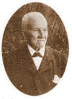 Elba Island